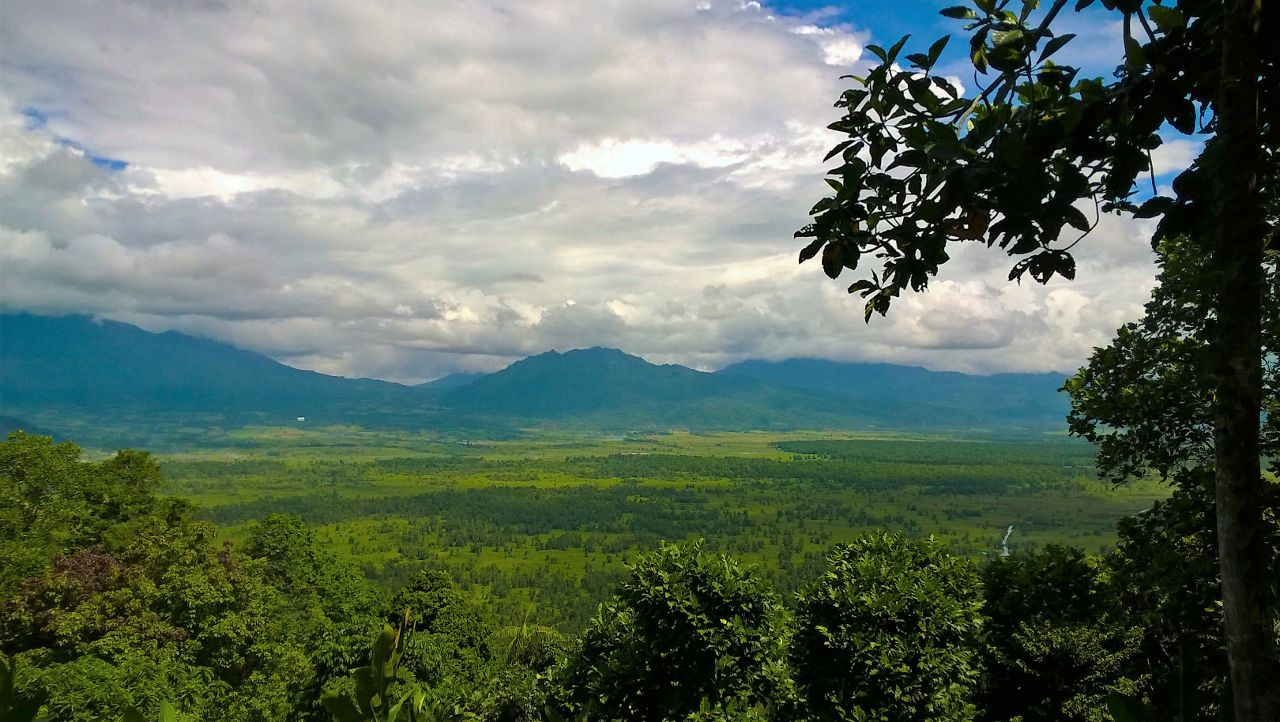 Rw. Dano Latitude: -6.161944 Rw. Dano Longitude: 105.983611 Latitude DMS: 6°9'43"S Longitude DMS: 105°59'1"E UTM Easting: 608,828.38 UTM Northing: 9,318,793.46 UTM Zone: 48M Geohash: qqgkgwqbj4kh Position from Earth's Center: E Elevation: 92 Meters (301.83 Feet) District: Serang Province: Banten Country: Indonesia Country Code: ID Country Code Alpha-3: IDN Country Continent: Asia Time Zone: Asia/Jakarta Time Zone Abbreviation: WIB WIB Stands for: Western Indonesian Time Daylight Saving Time: No UTC/GMT Difference: +07:00 Current Time: Tuesday June 6th 8:12pm